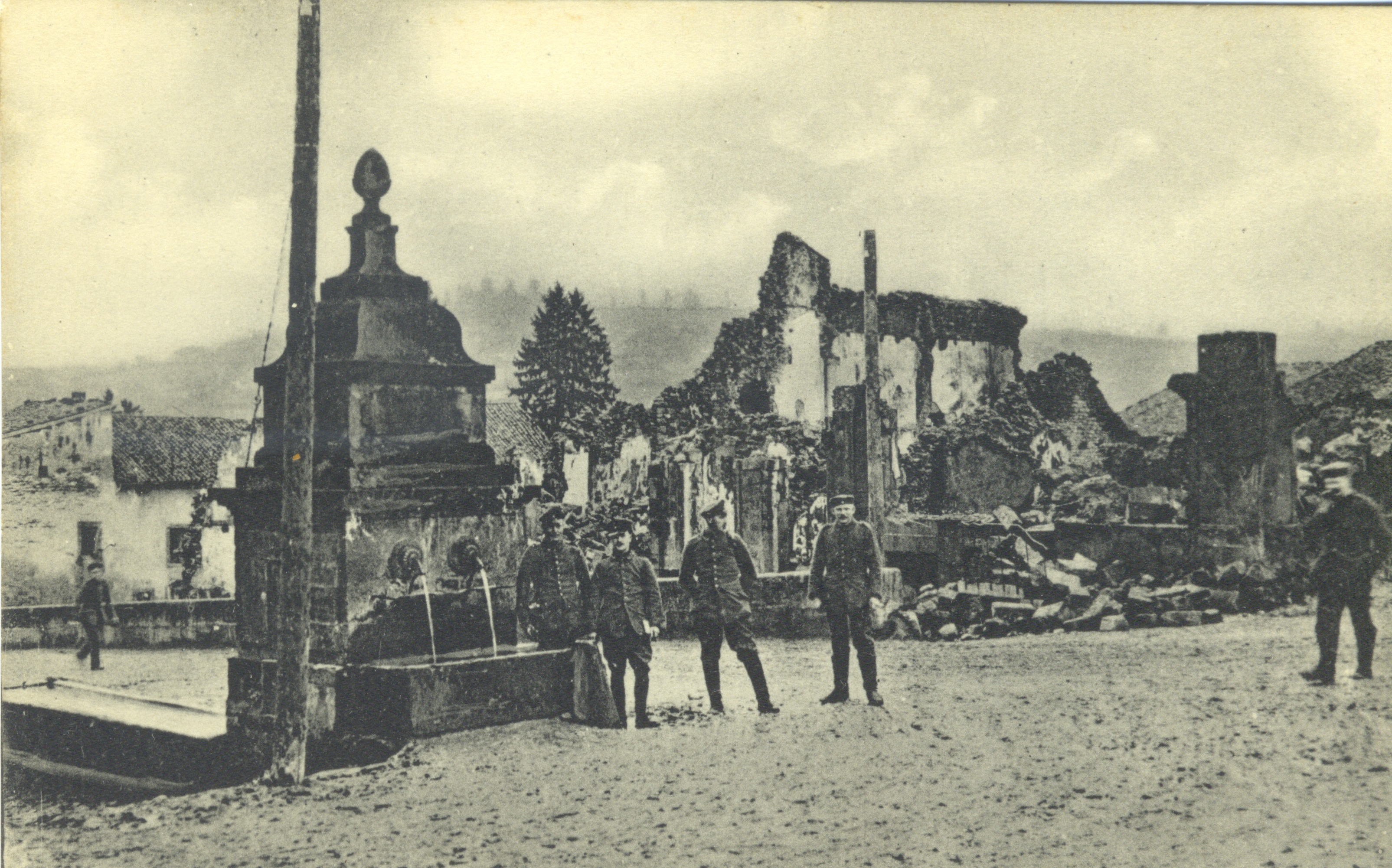 Persistent URL: Subject: World War I; Lost architecture; Soldiers; France--Marville; miami digital collections; bowden postcard collection